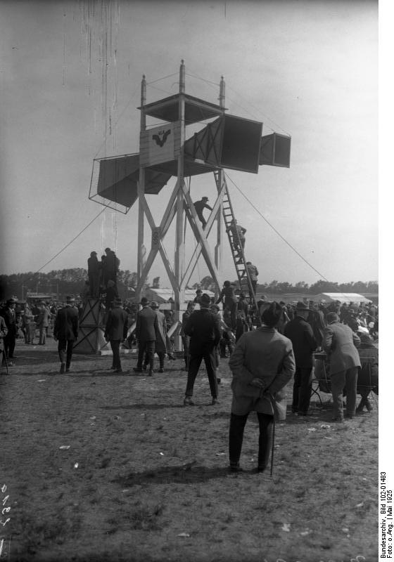 Berlin-Tempelhof, loudspeaker Photographs by the German flight. Recordings from the German flight, which took place the first time after the war, with the participation of over 90 light aircraft at Tempelhof, near Berlin. The giant speakers at the Tempelhof field, which made the public announcements about the course of the round-trip flight.